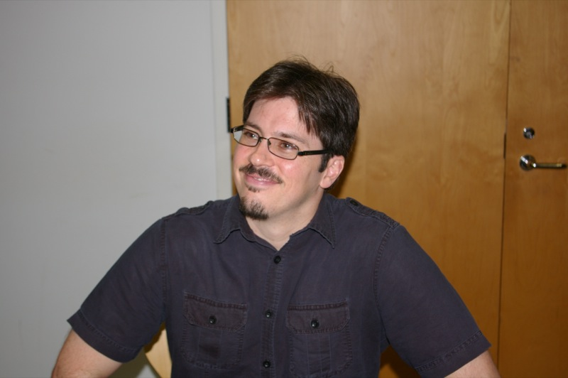 David Axe in 2011 at RCPL